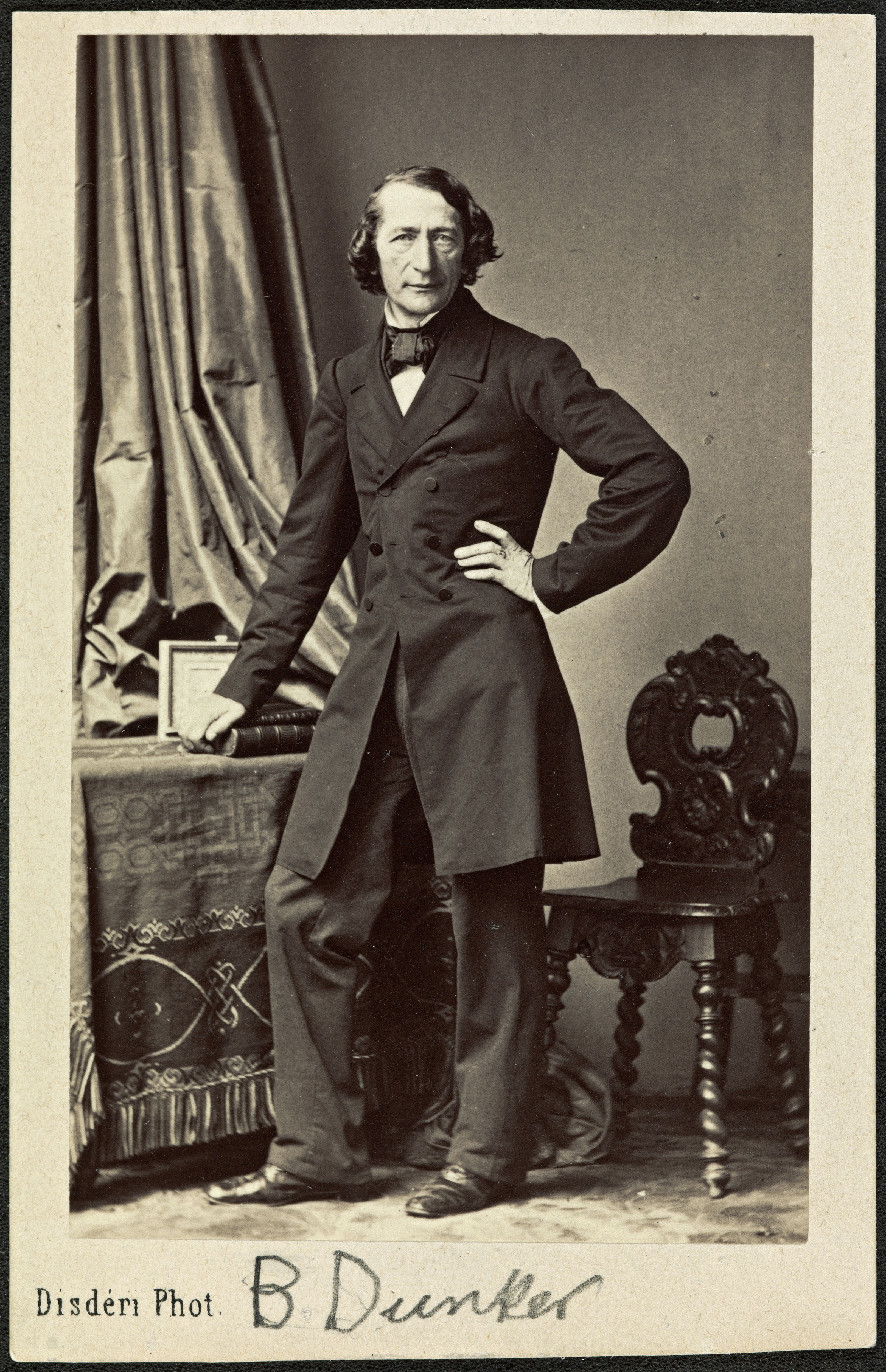 Dato / Date: ukjent / unknown Sted / Place: Frankrike, Paris Fotograf / Photographer: André-Adolphe-Eugène Disdéri Digital kopi av original / Digital copy of original: sv/hv papirpositiv, visittkortportrett Eier / Owner Institution: Nasjonalbiblioteket / National Library of Norway Lenke / Link: Bildesignatur / Image Number: blds_08681